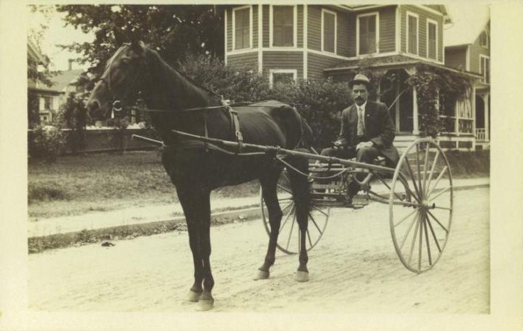 A harness-racing buggy in Torrington, Connecticut, from a postcard published about 1910.